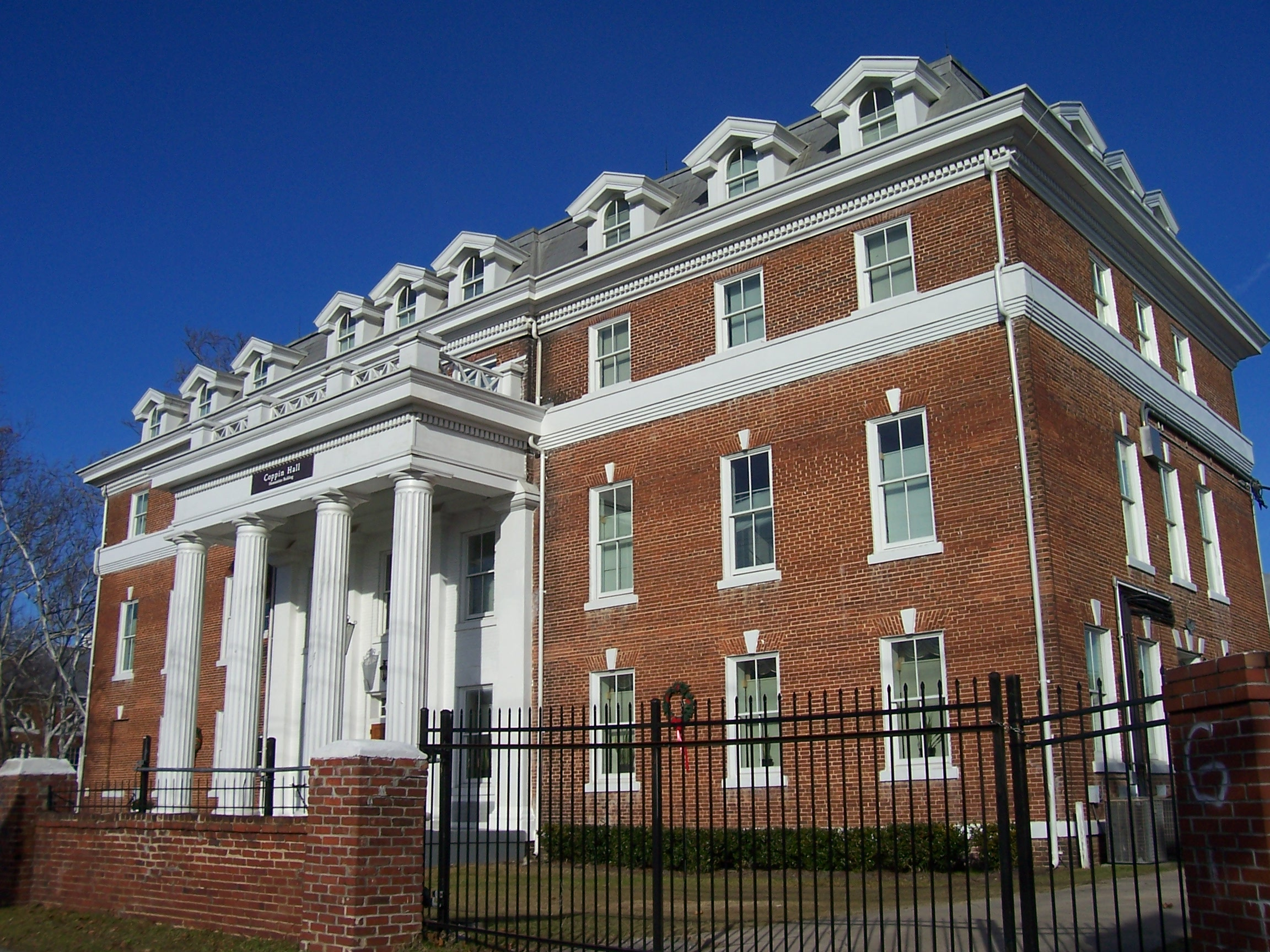 Levi J. Coppin Hall is a historic building at Allen University, Columbia, South Carolina. Built in 1906, it is now a dormitory for female students.